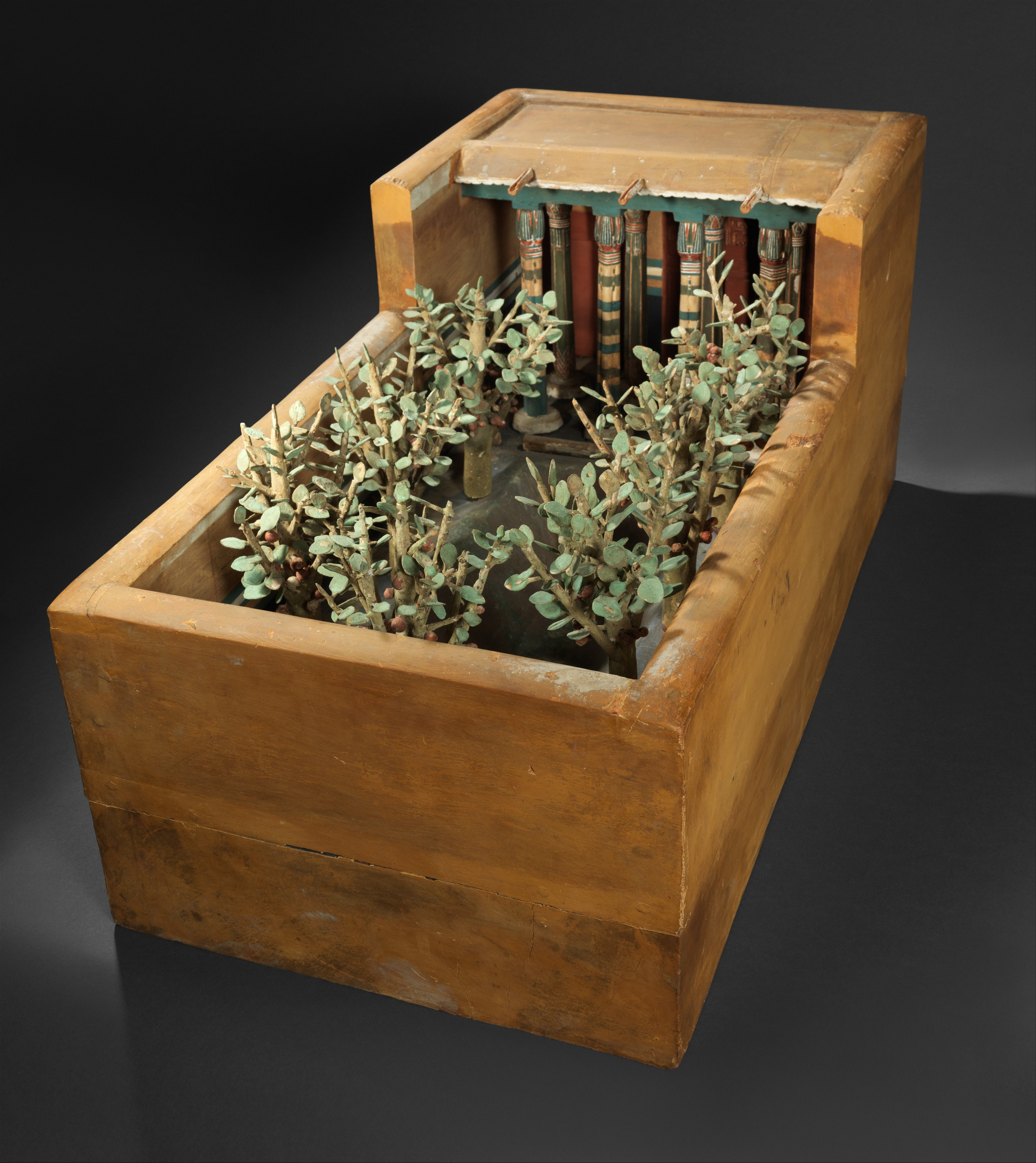 Garden, Meketre